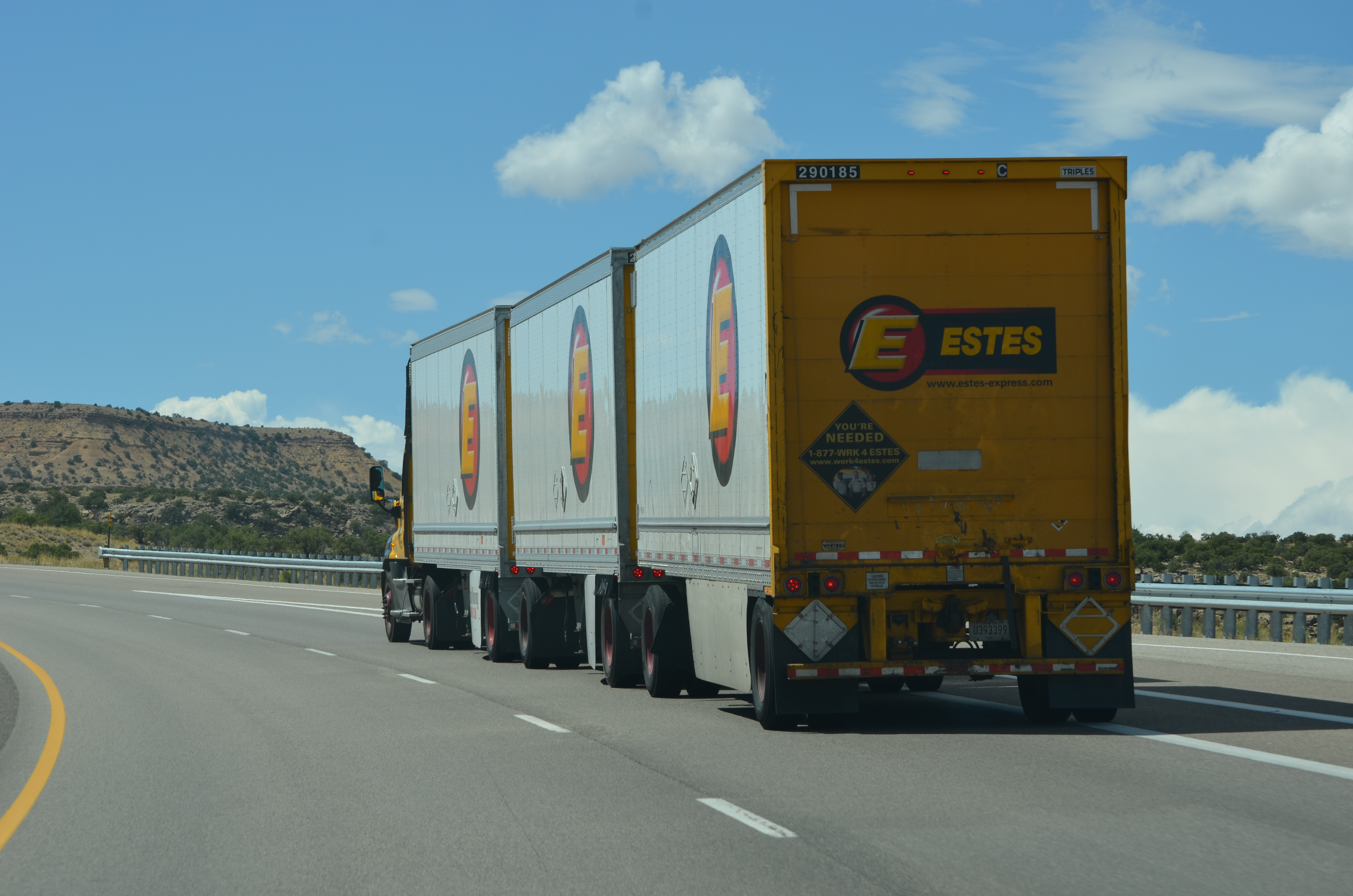 Estes Express Truck driving in Utah 2017